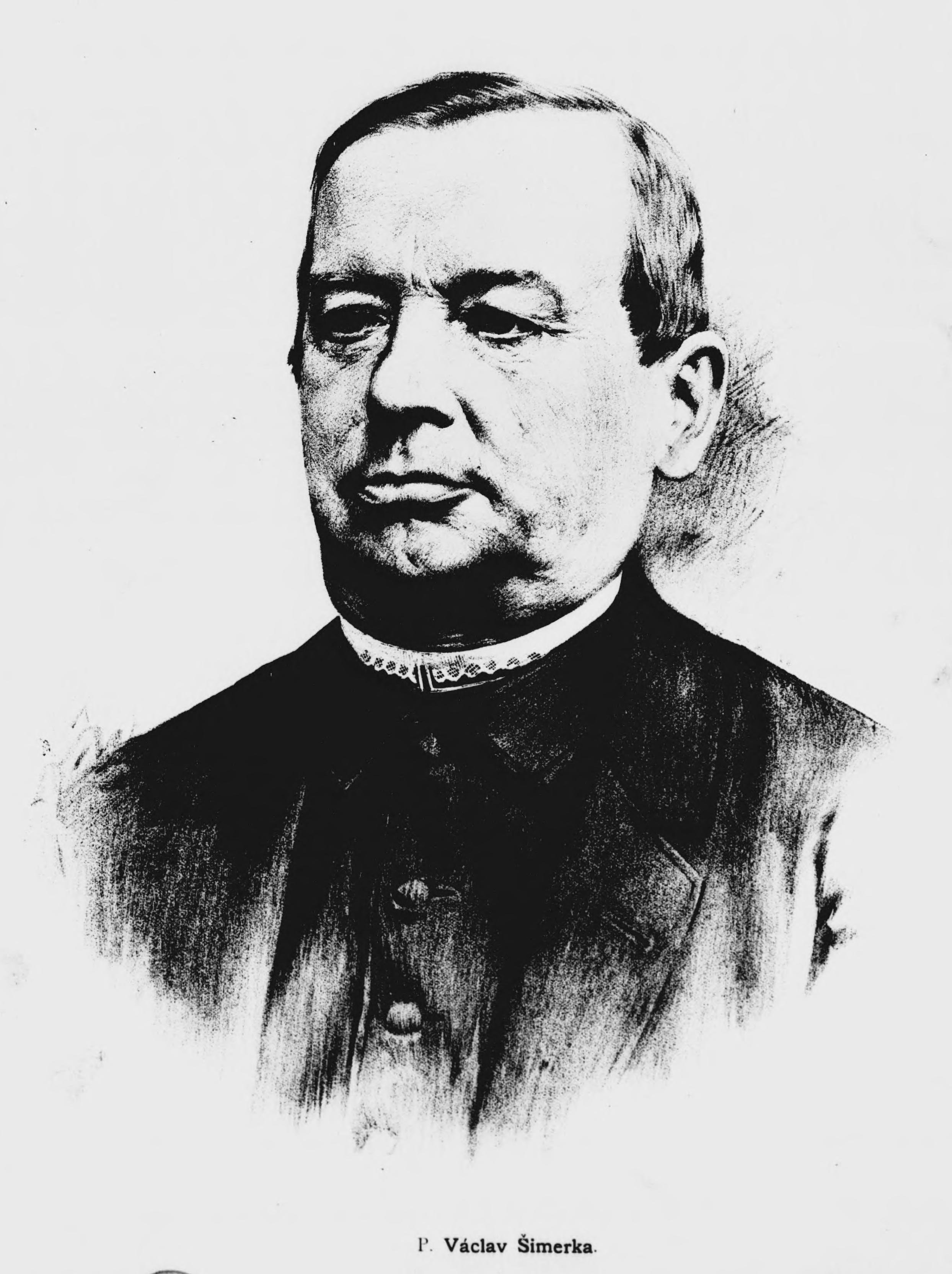 Portrait of Václav Šimerka, Czech patriotic priest and writer.